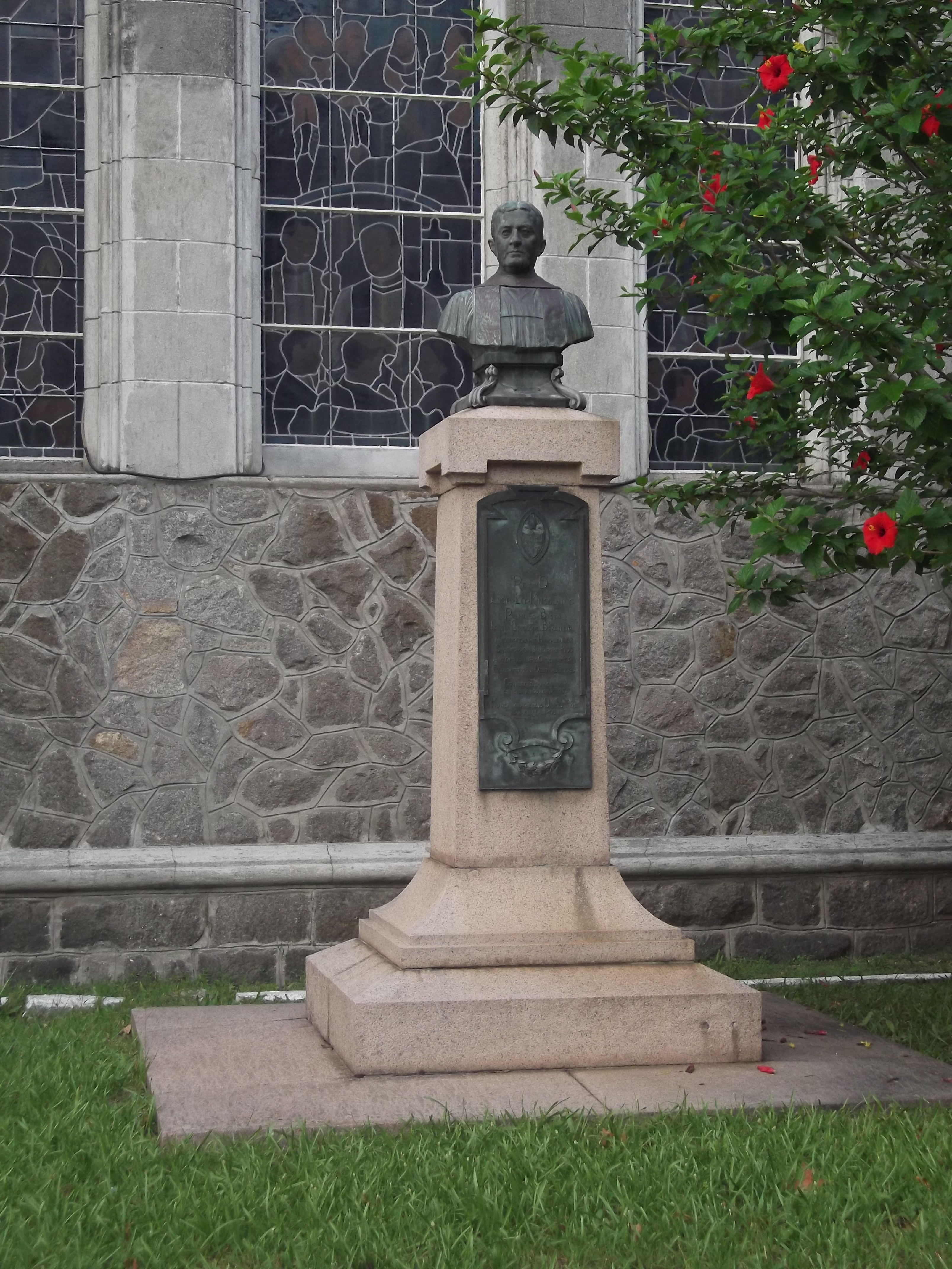 Anglican Church of the Savior, Rio Grande, Brazil : Bust of the Bishop Lucien Lee Kinsolving ; first Anglican Bishop of Brazil